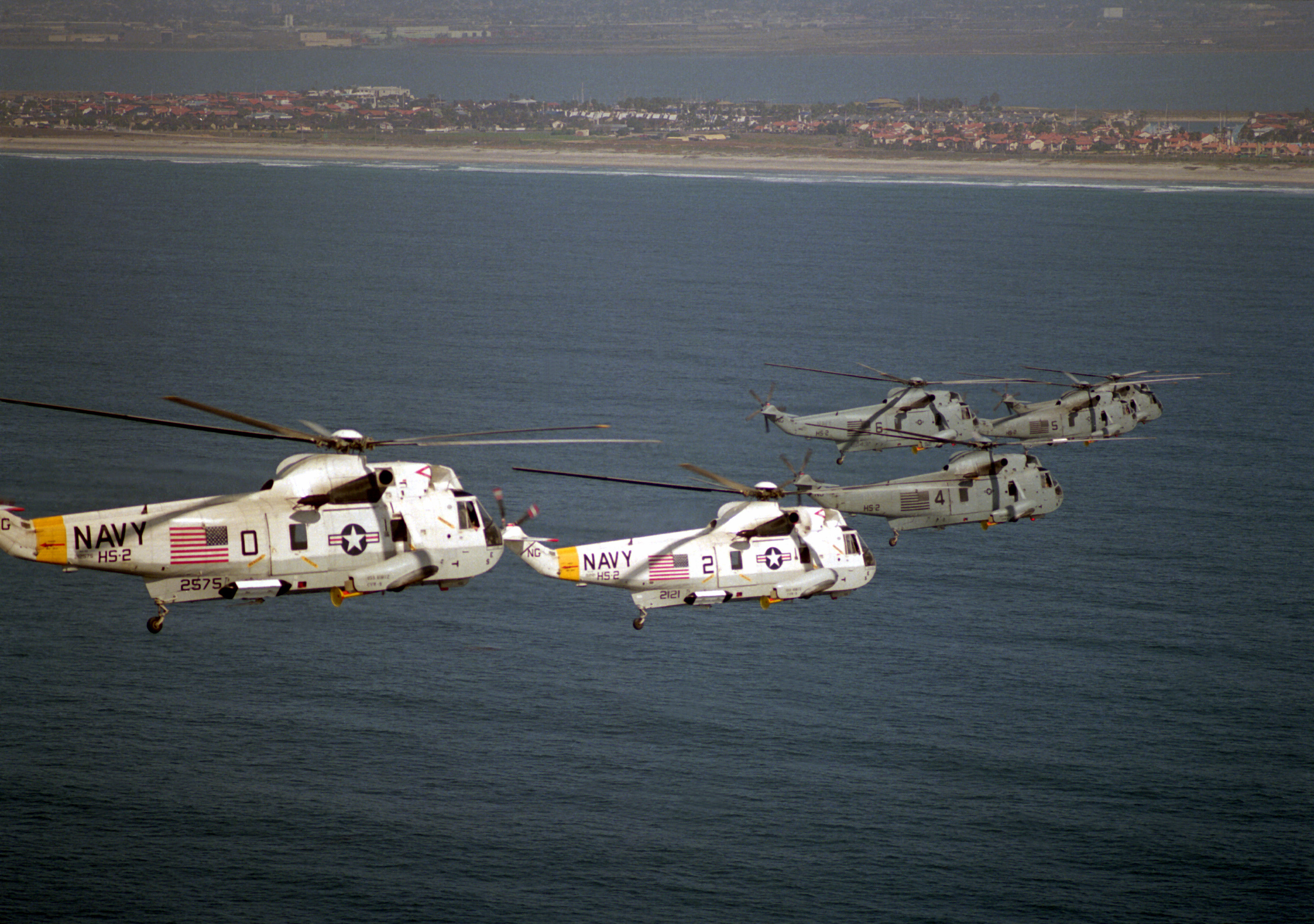 Six U.S. Navy Sikorsky SH-3H Sea King helicopters from Helicopter Anti-Submarine Squadron 2 (HS-2) "Golden Falcons" flying in a loose formation as they return from a Western Pacific deployment. HS-2 had beed assigned to Carrier Air Wing 9 (CVW-9) aboard the aircraft carrier USS Nimitz (CVN-68) for a deployment to the Western Pacific from 2 September 1988 to 4 March 1989. Note the change from high visibility to low visibility markings.